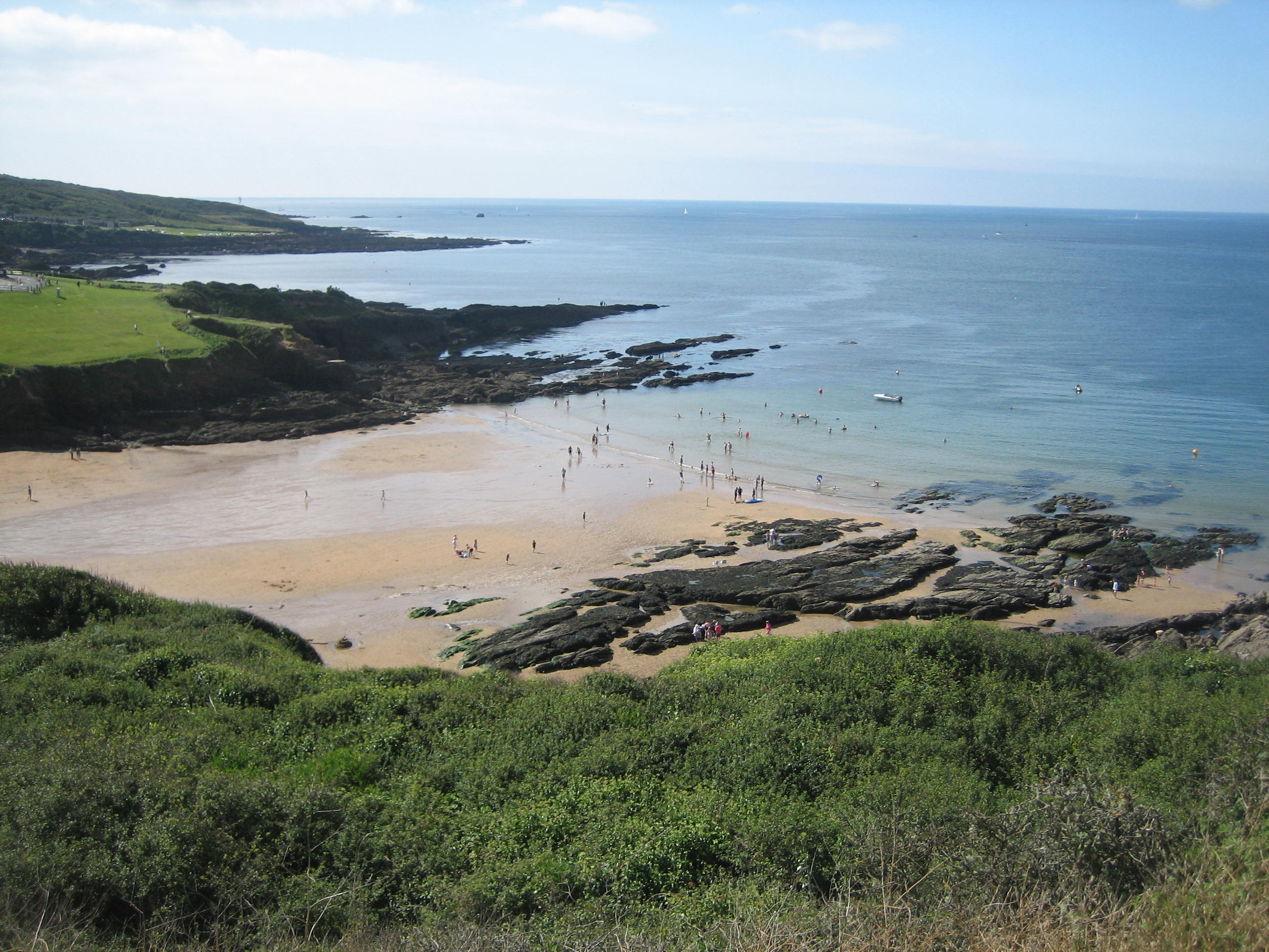 Bovisand beach in Devon, England, at low water.